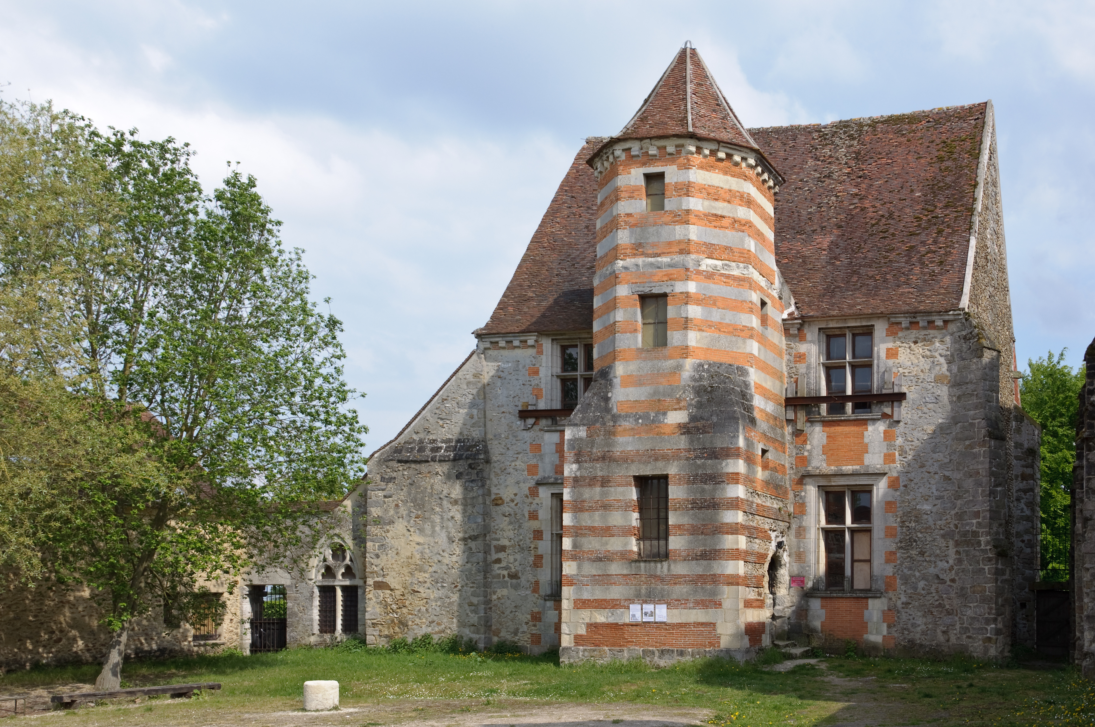 Former Knights Templar commandery in Coulommiers (Seine-et-Marne, France): the house of the commander (12th - 16th-century).